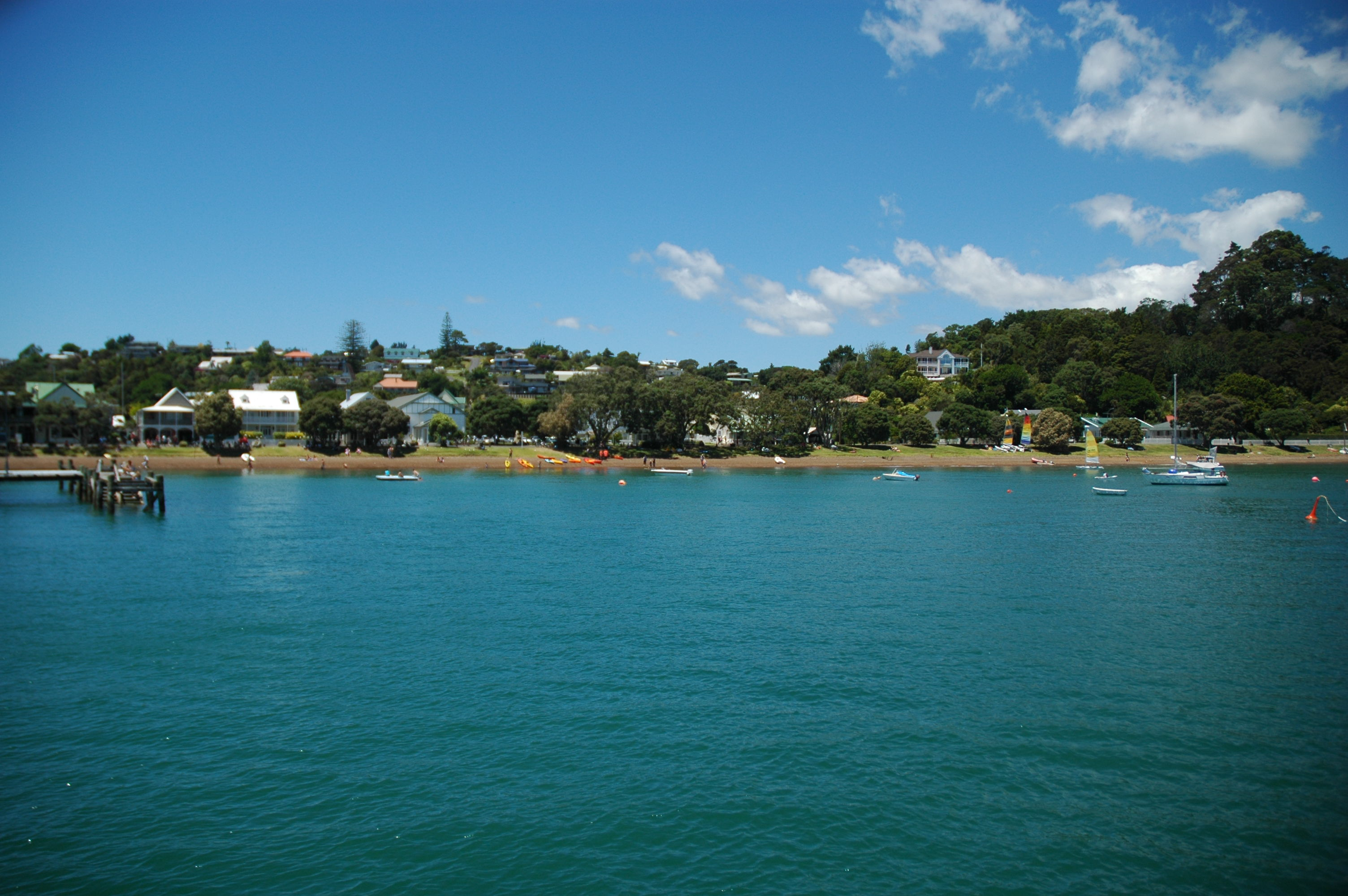 New Zealand, Russell - view from the Bay of Islands.